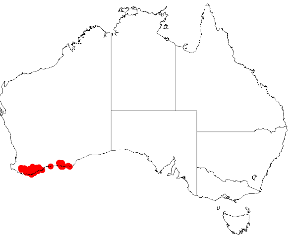 Acacia biflora Occurrence data from Australasian Virtual Herbarium downloaded from on 8 December 2018